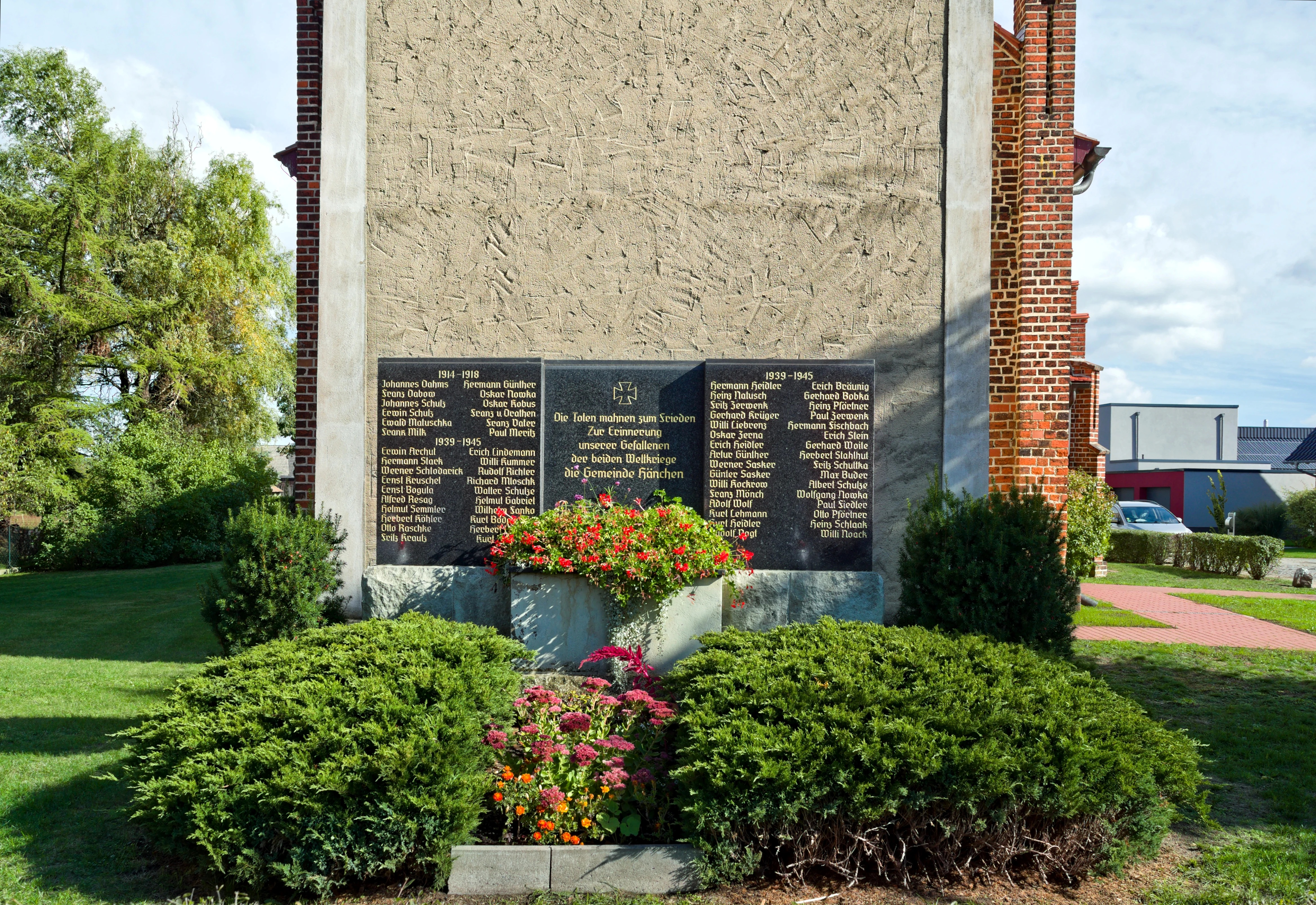 Memorial dedicated to both World Wars in front of the village church in Hänchen.